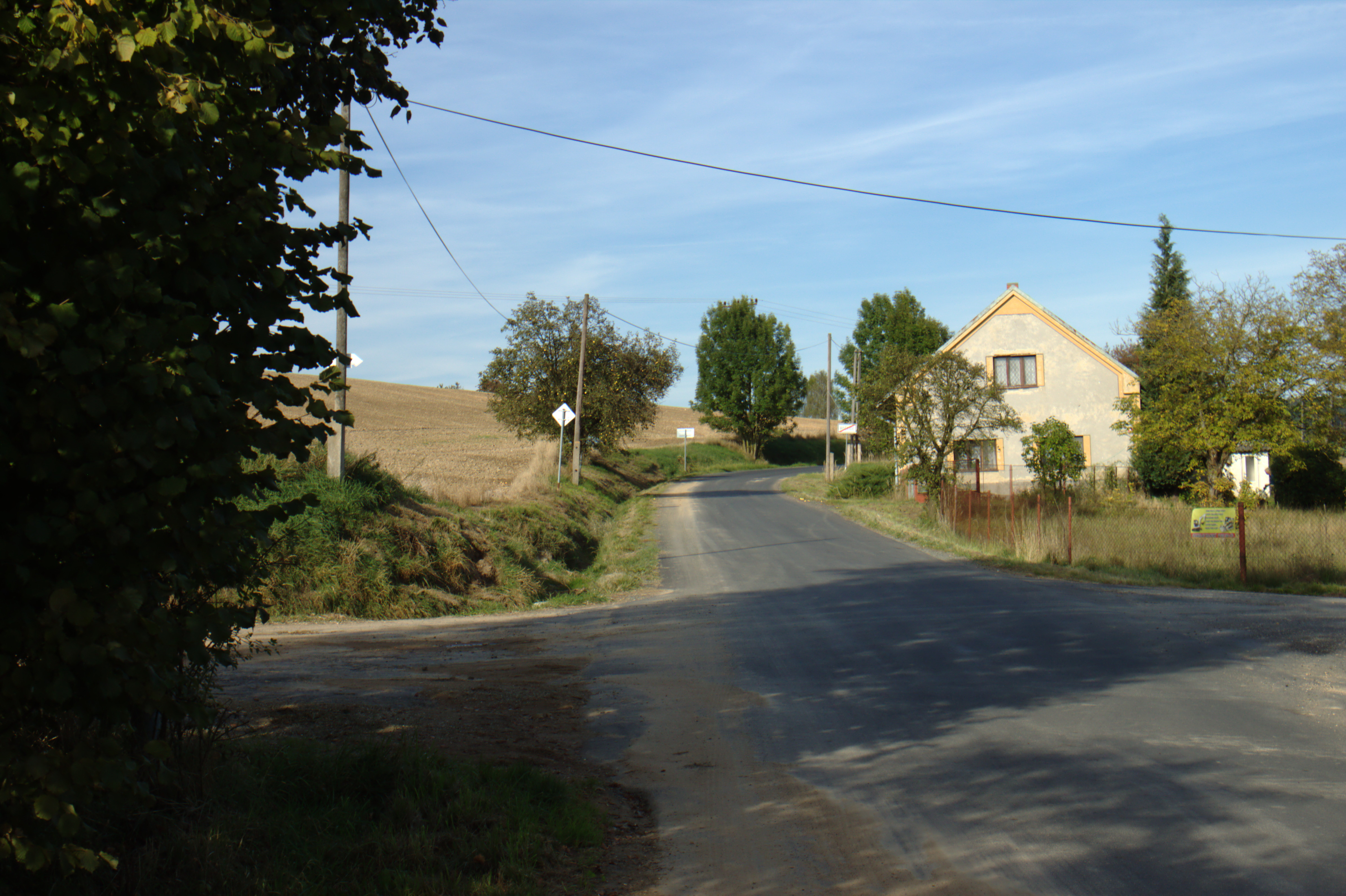 A crossroad in the central part of the village of Boštice, Central Bohemian Region, CZ